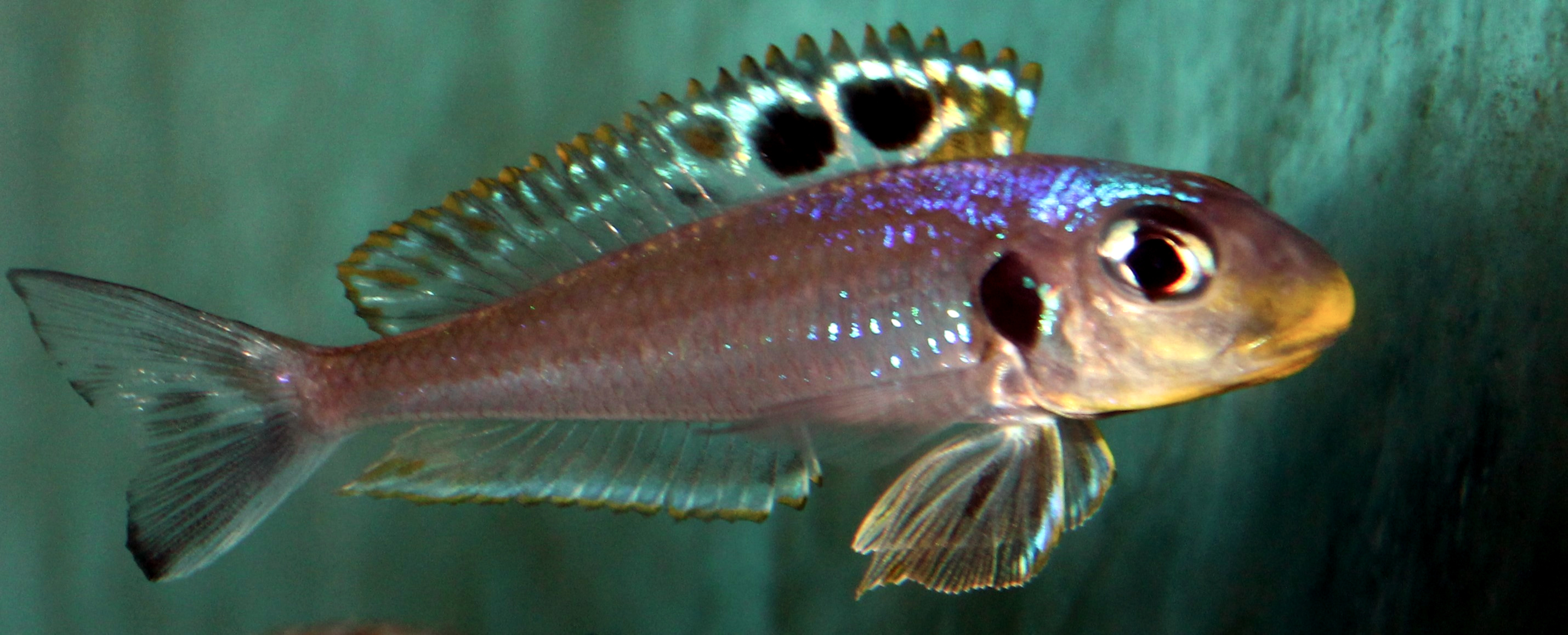 Hungary